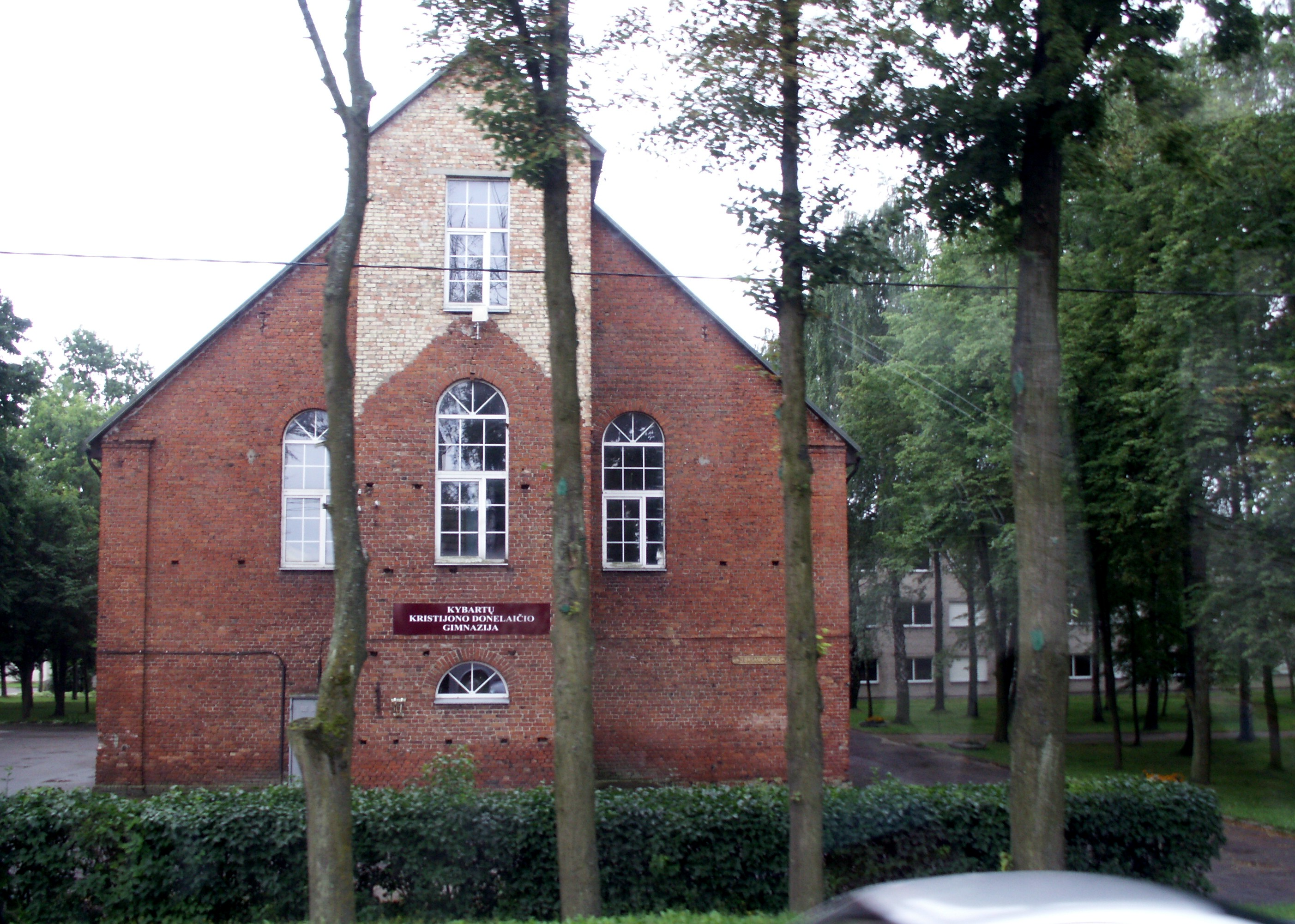 Kybartai, Lithuania